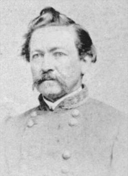 Harry T. Hays, Confederate General.